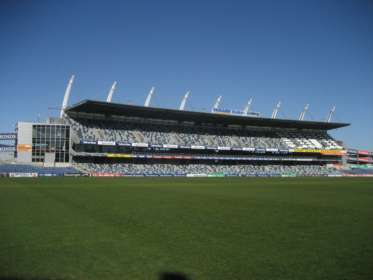 Skilled Stadium - Geelong, Victoria, Australia